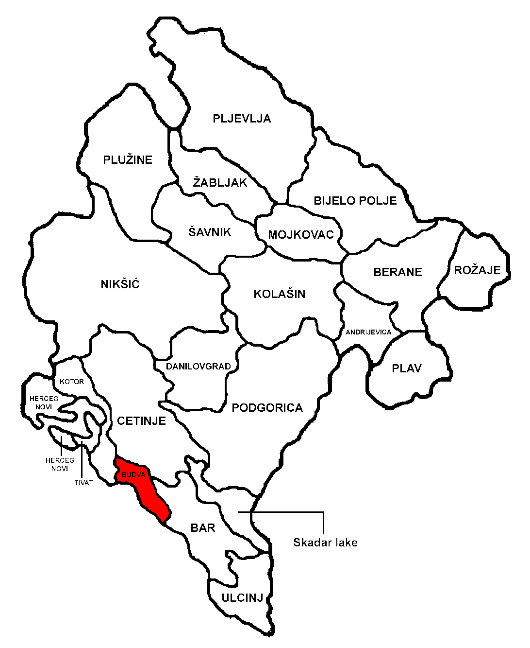 Location of Budva within Montenegro